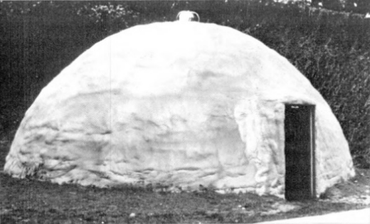 A 28-foot USA-CERL foam dome constructed during a mobilization exercise at Fort McPherson, GA, in 1982.